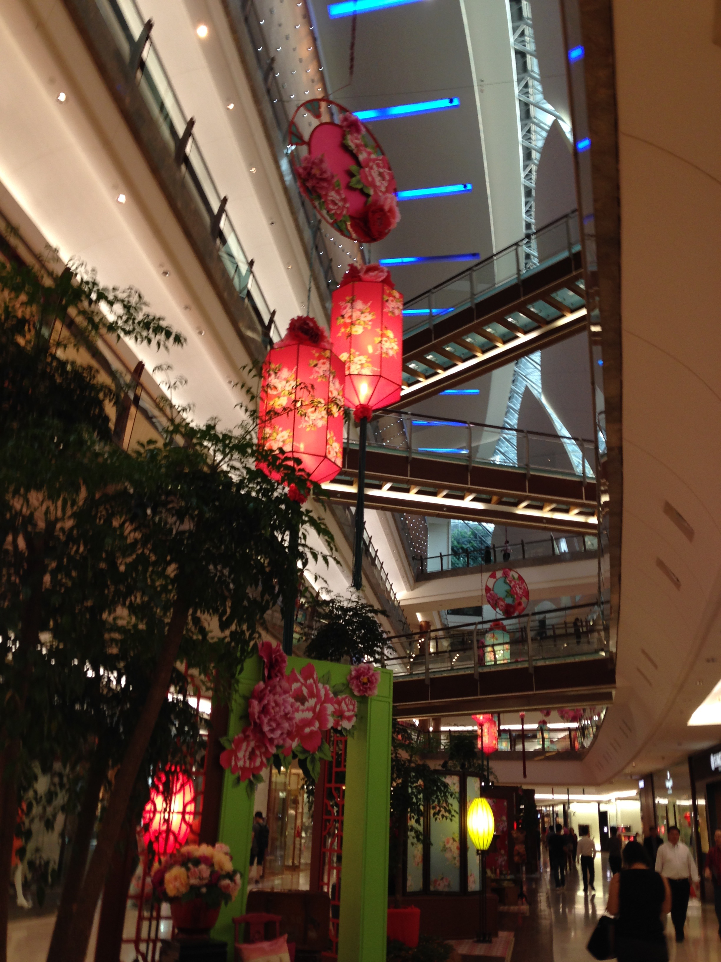 2014 CNY Deco in The Gardens